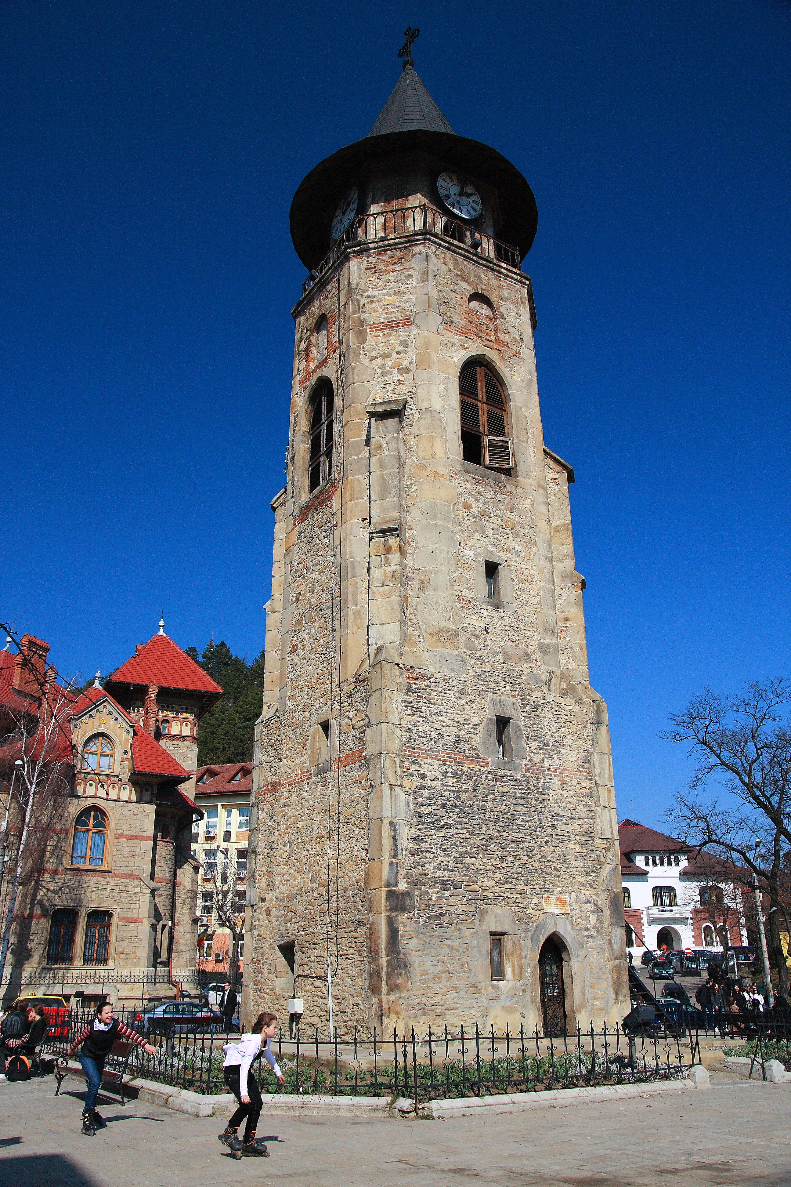 Piatra Neamţ City Tower